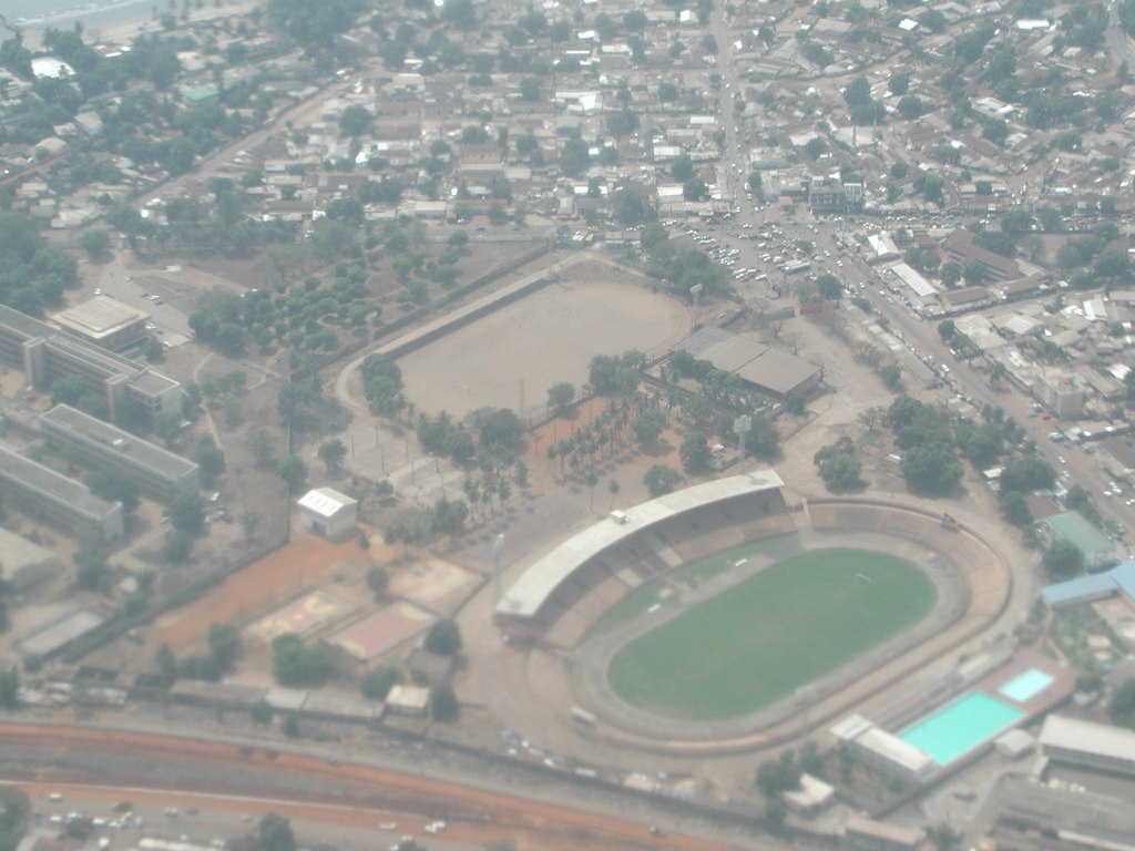 This is when I was flying over Conakry, Guinea on April 23, 2004.